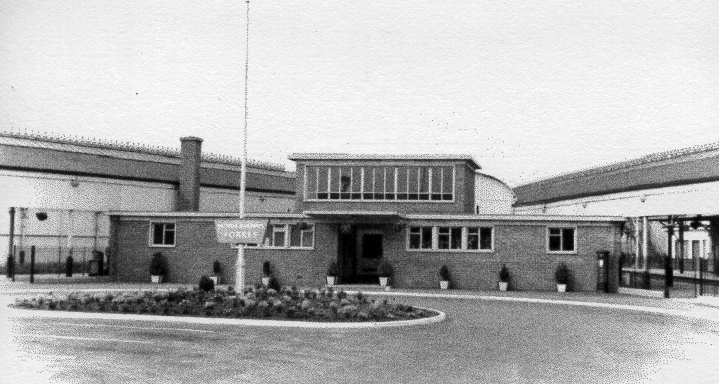 Forres station, ex-Highland Railway, newly rebuilt 1956View NE, towards Inverness: line to Elgin to right, to Aviemore to left.